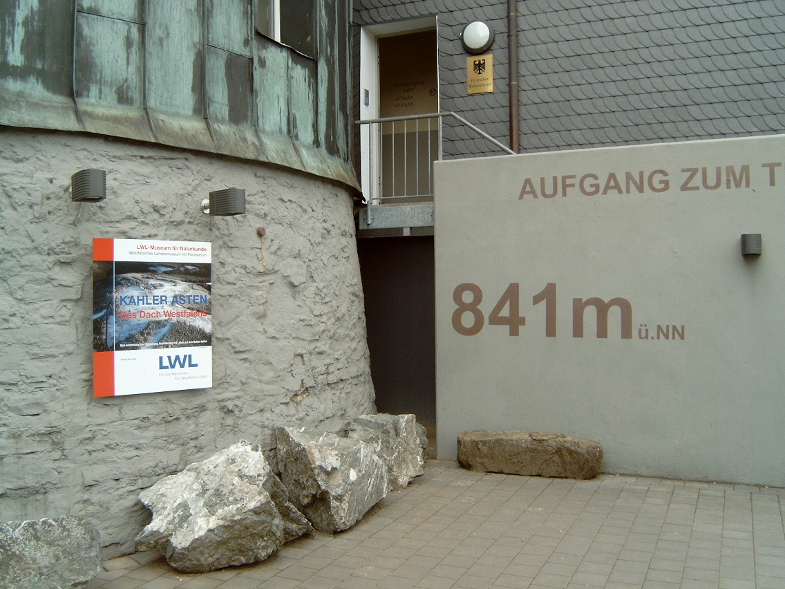 Mountain "Kahler Asten", 841 metres, altitude declaration on the building on the peak